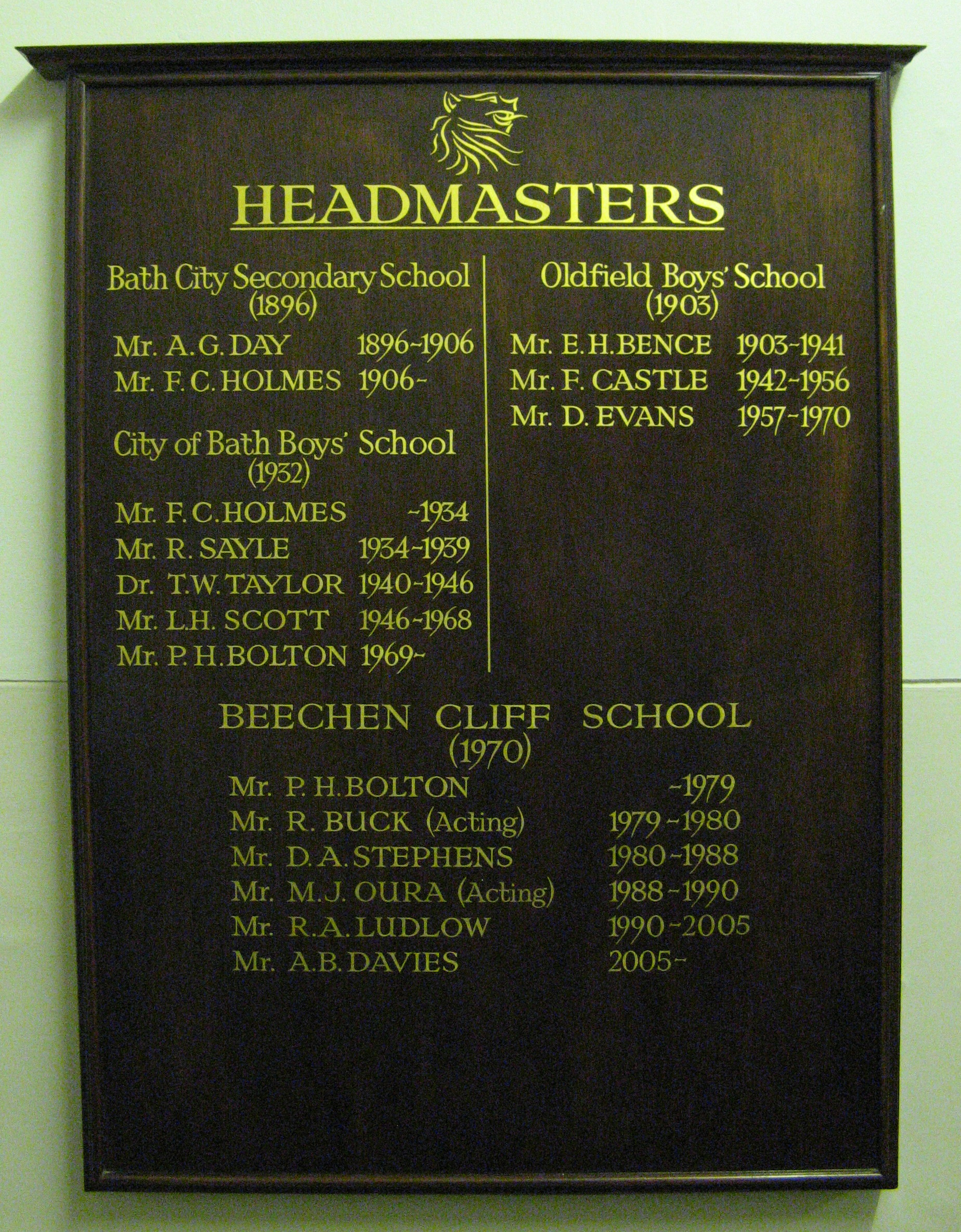 Beechen Cliff School, Bath, nameboard of headmasters in entrance foyer of main building.